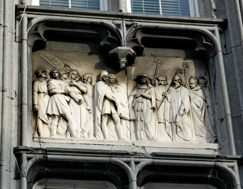 West façade of the provincial palace in Liège, Belgium Here a sculpted relief of bishop Erard de la Marck ordering the building of a new palace.